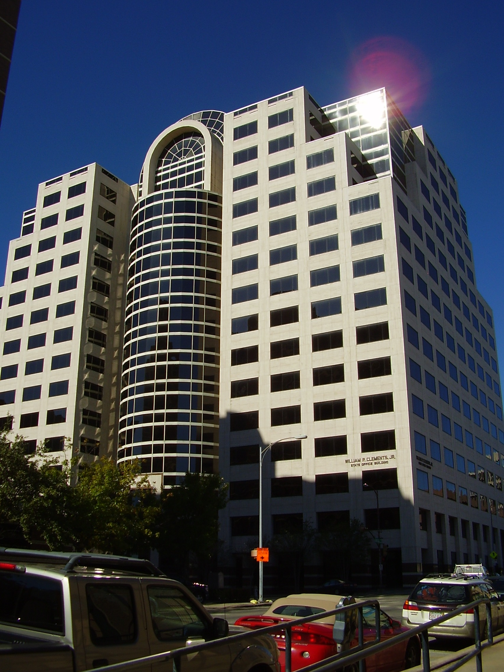 William P. Clements State Office Building, which has the offices for the Texas Attorney General, the Texas Department of Information Resources, the Texas State Office of Administrative Hearings, and the Texas Commission on Jail Standards.